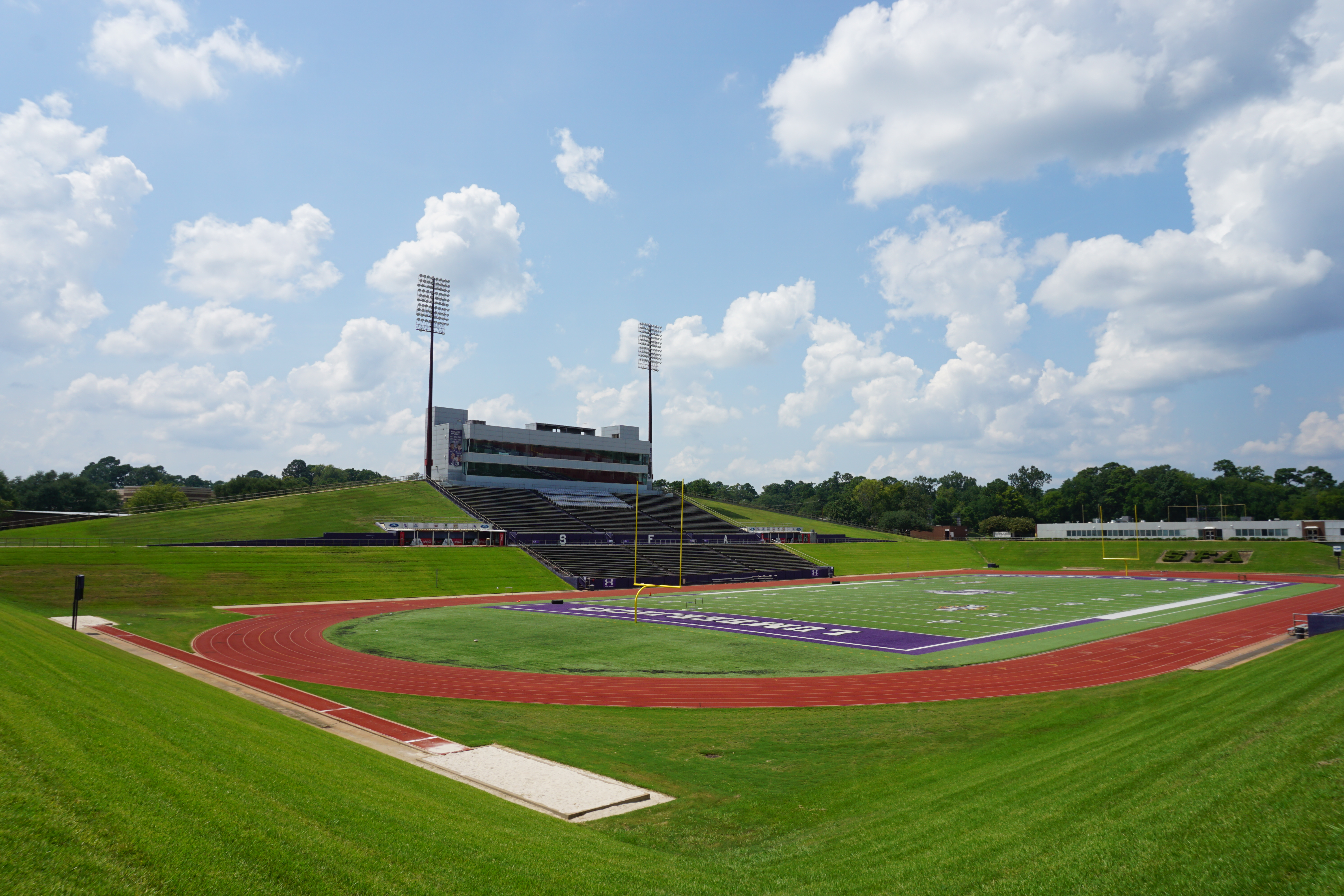 Homer Bryce Stadium on the campus of Stephen F. Austin State University in Nacogdoches, Texas (United States).